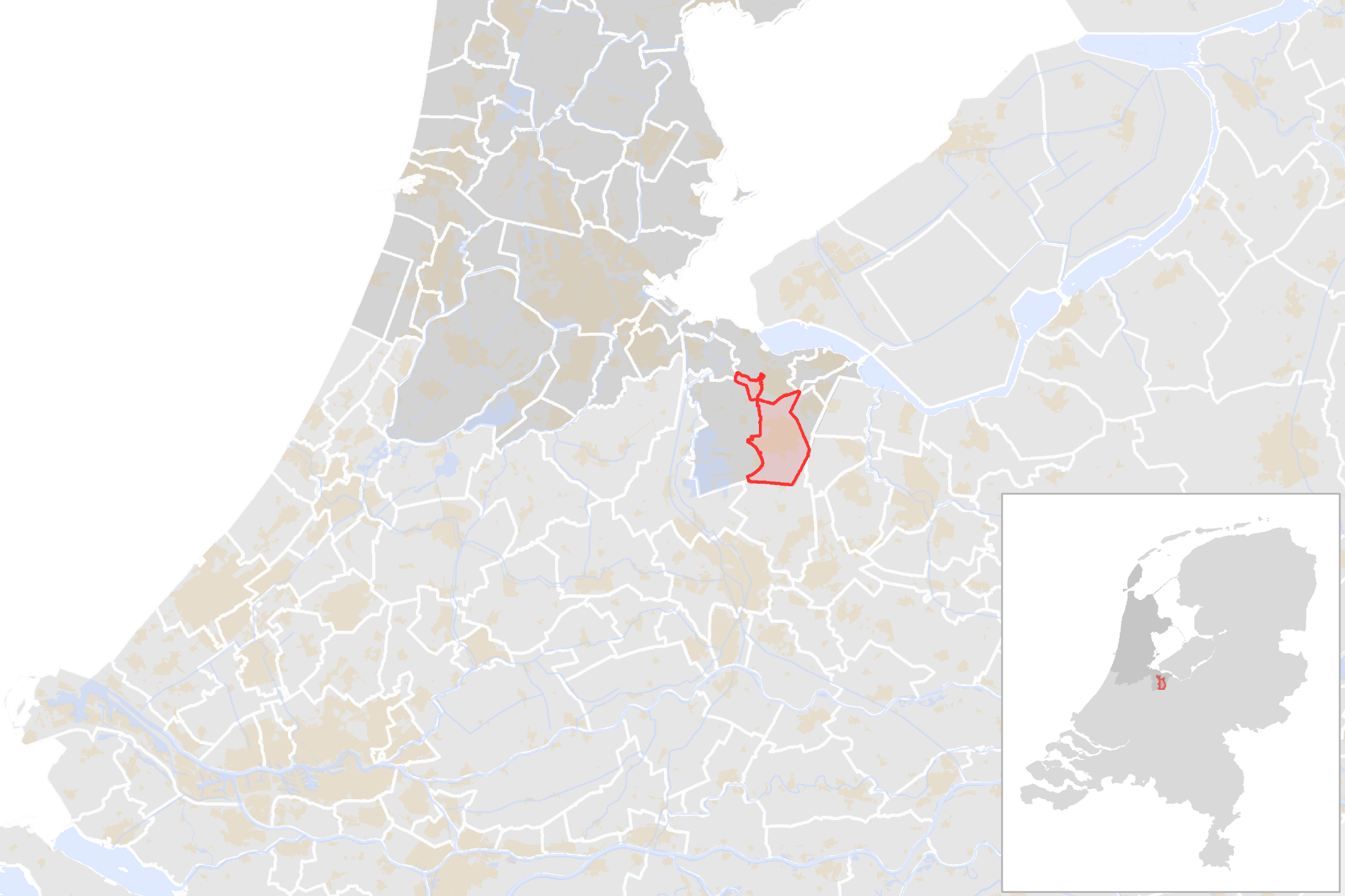 Locator map showing municipality boundary of one of the 390 Dutch municipalities (as of 2016)